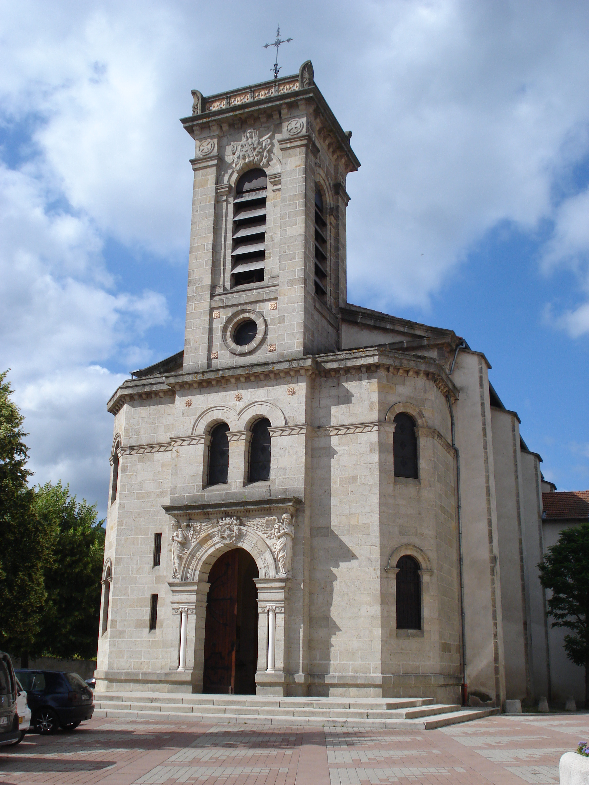 Brives-Charensac (Haute-Loire, Fr), church.